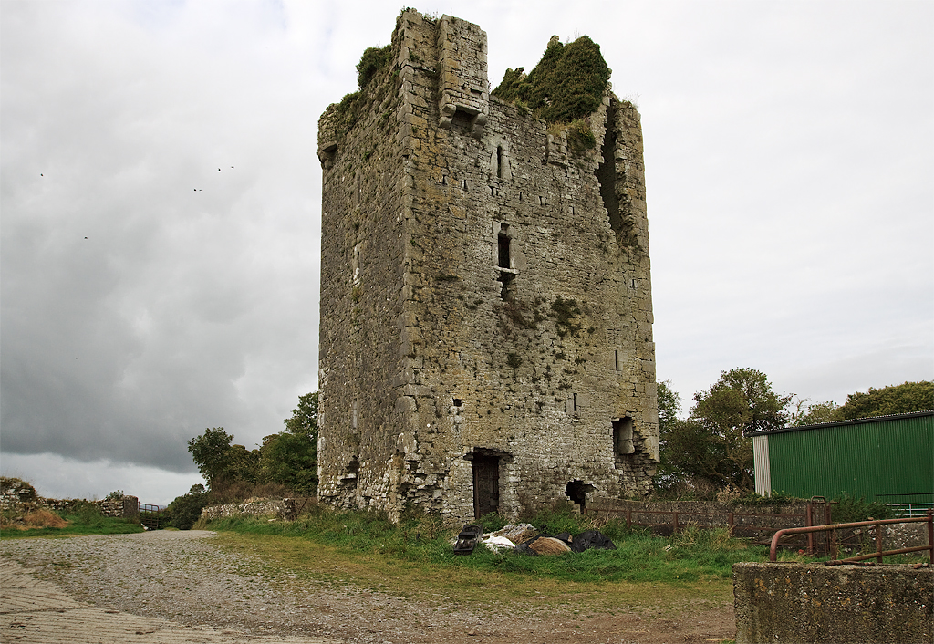 Castles of Munster: Moycarkey, Tipperary This five storey tower is located about a mile to the northwest of the town of Horse & Jockey set within a large rectangular bawn. There is a circular bartizan on the SW corner, and a box machicolation is set high up over the entrance. In 1640 the castle was held by William Cantwell.